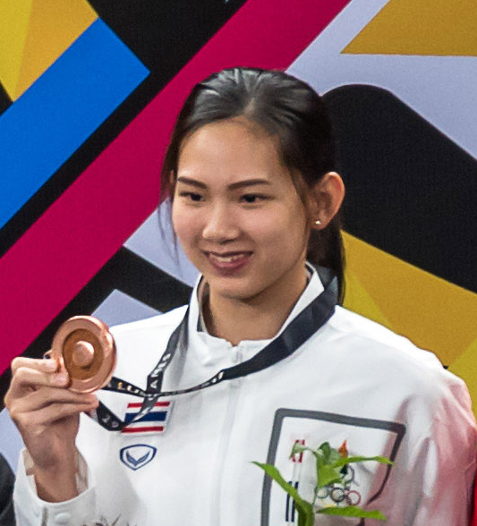 Sea Games Badmintion Final